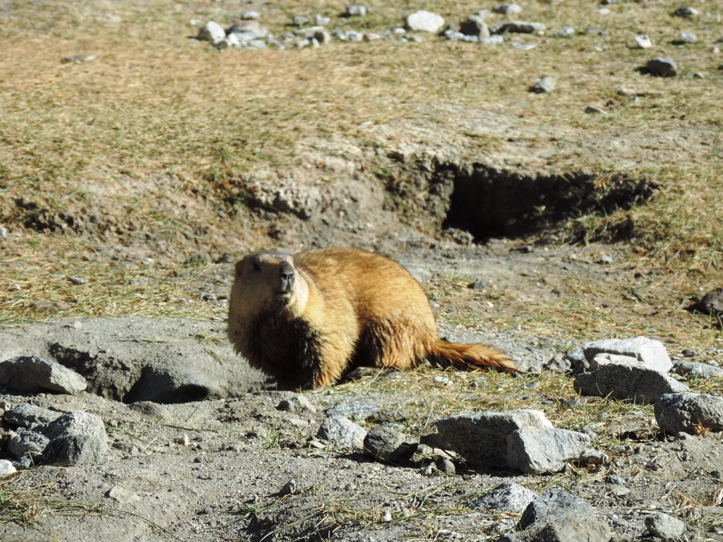 Himalayan marmot (Marmota caudata) in Ladakh, Jammu & Kashmir, India